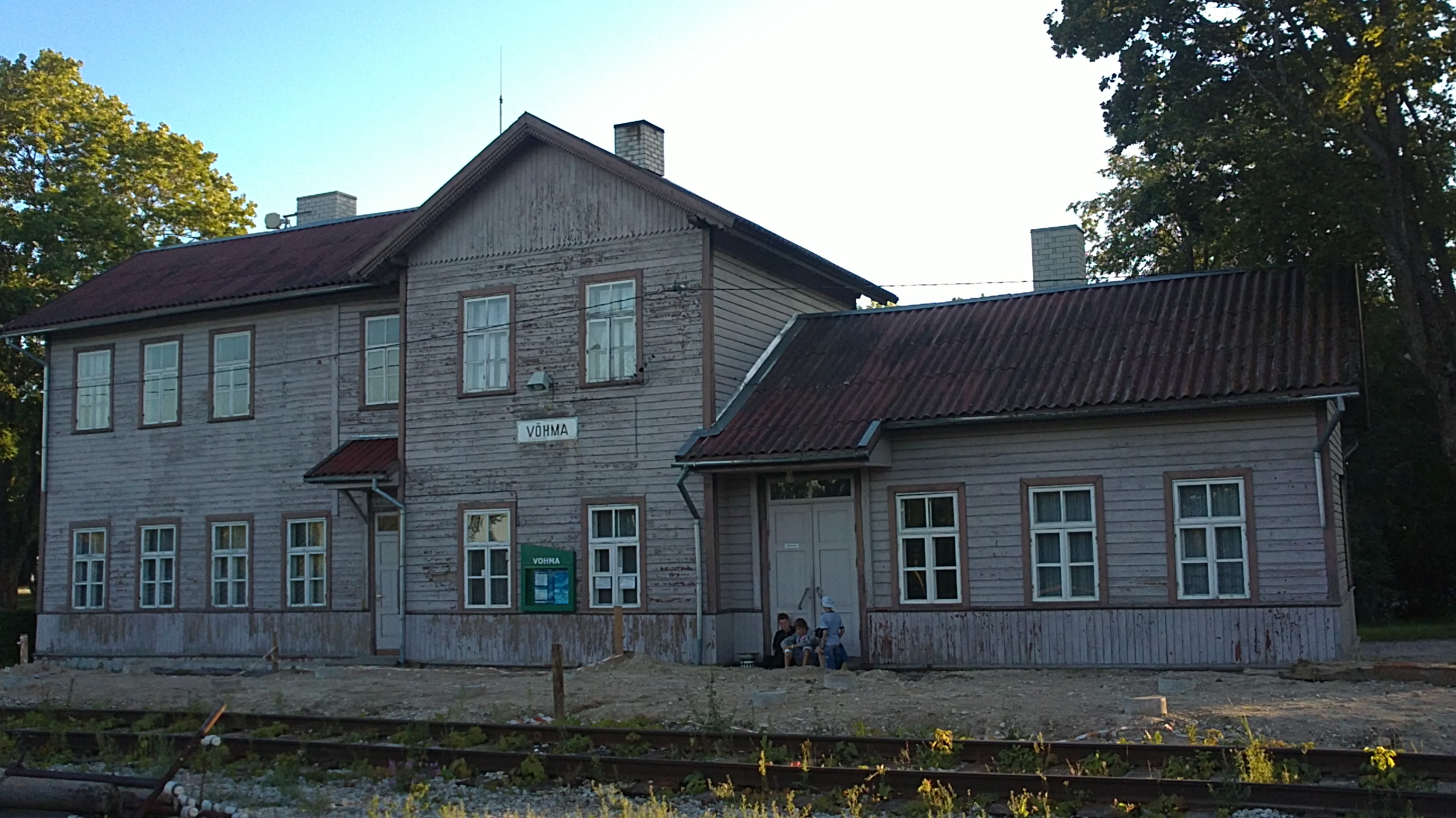 The Võhma railway station, initially built in 1901. The left-side wing (as seen from the railway) was added in 1926; notice the array of smaller window squares.